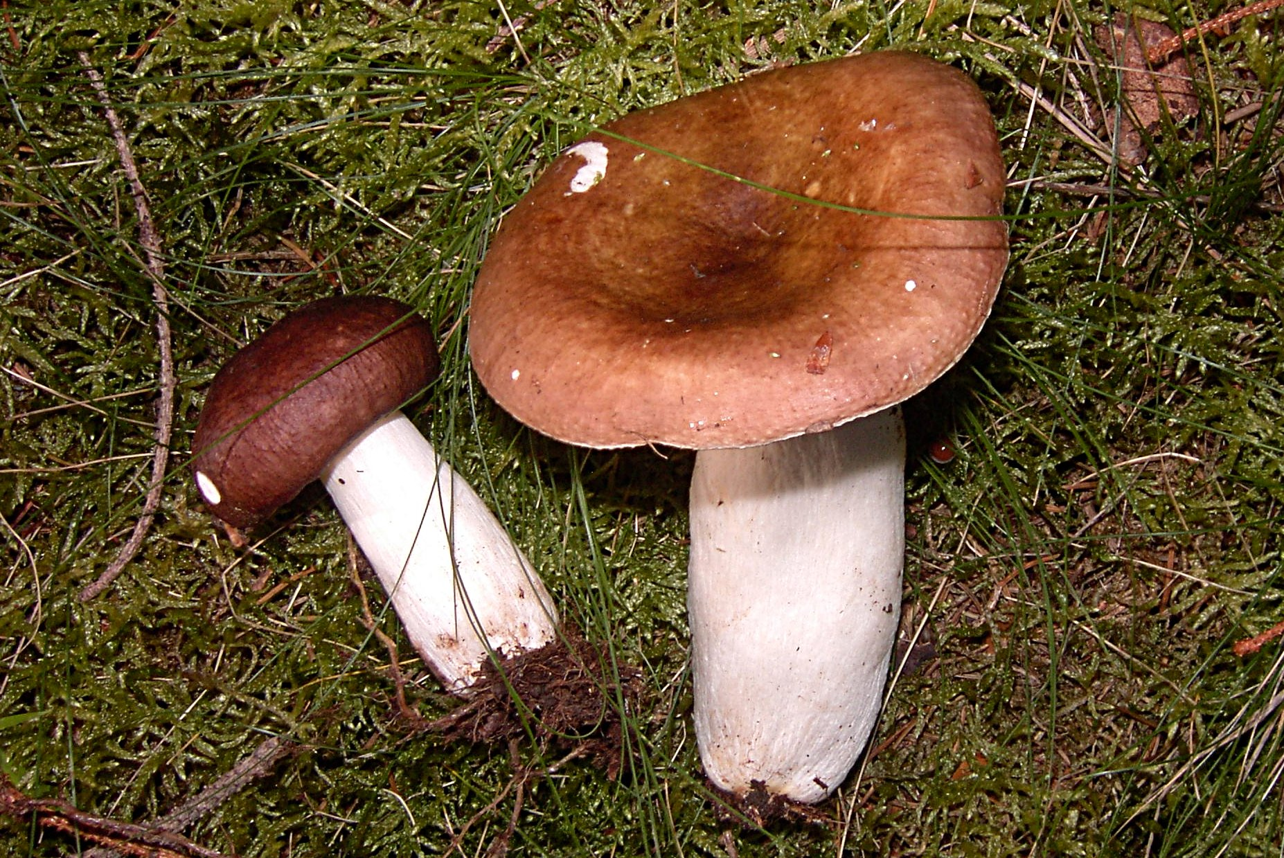 Russula integra, form a spruce forrest in the Taunus (low mountain range, part of the Rhenish Slate Mountains) taste: mild, odor: weak, spore print: ochre, Flesh: white, quite firm, unchangeable